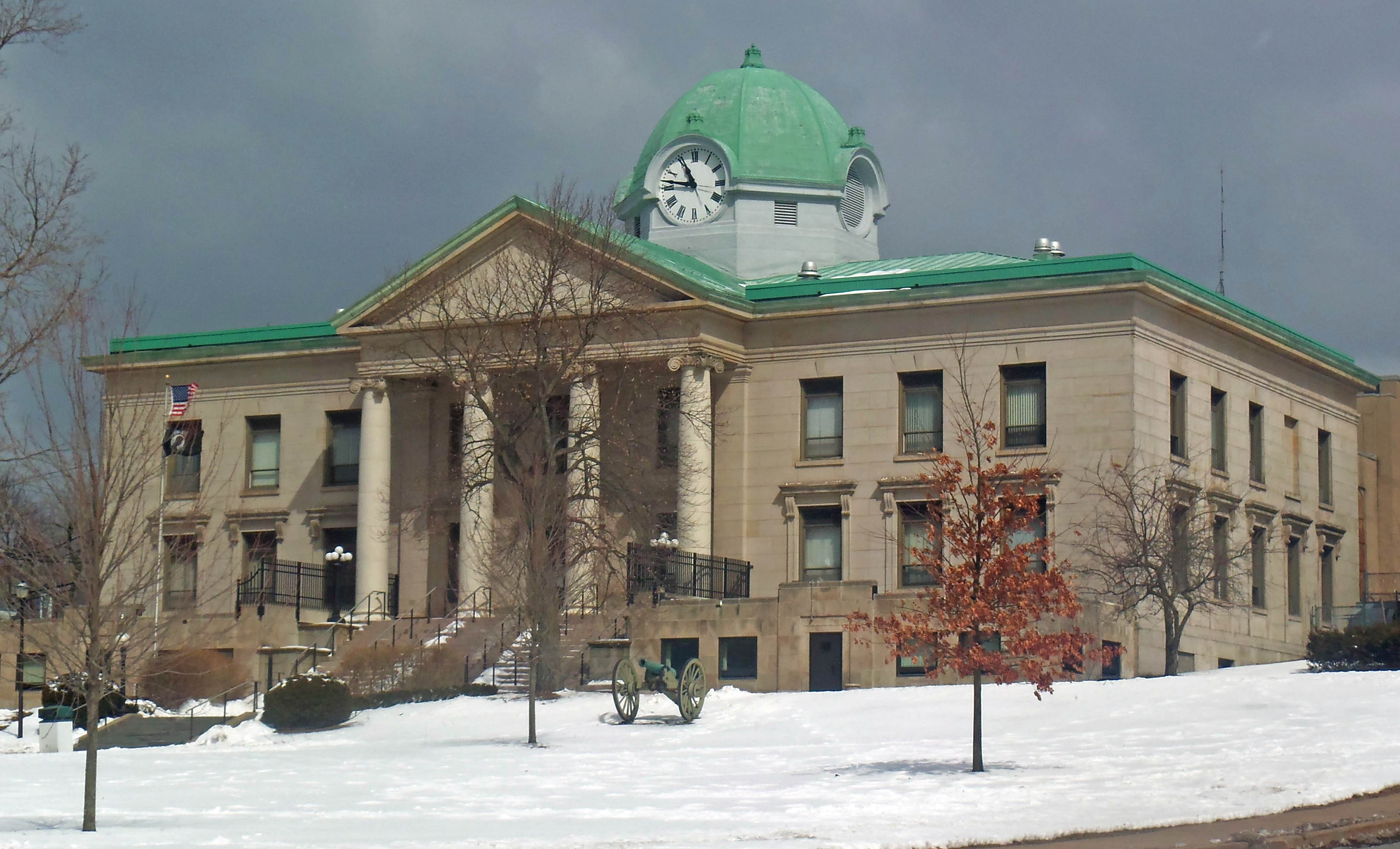 Sullivan County courthouse, in downtown Monticello, NY, USA